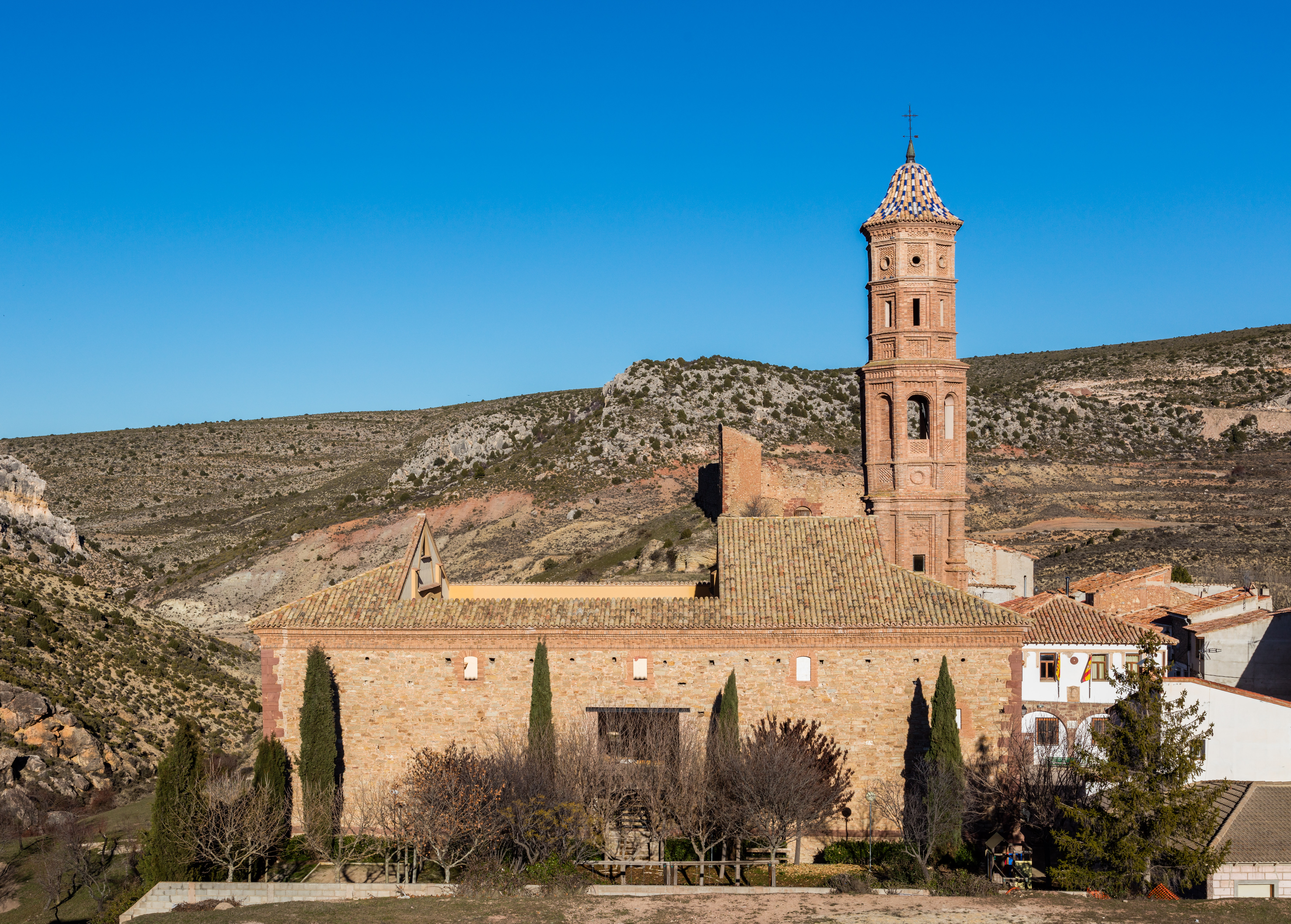 Church of St Miguel, Torre de las Arcas, Teruel, Spain